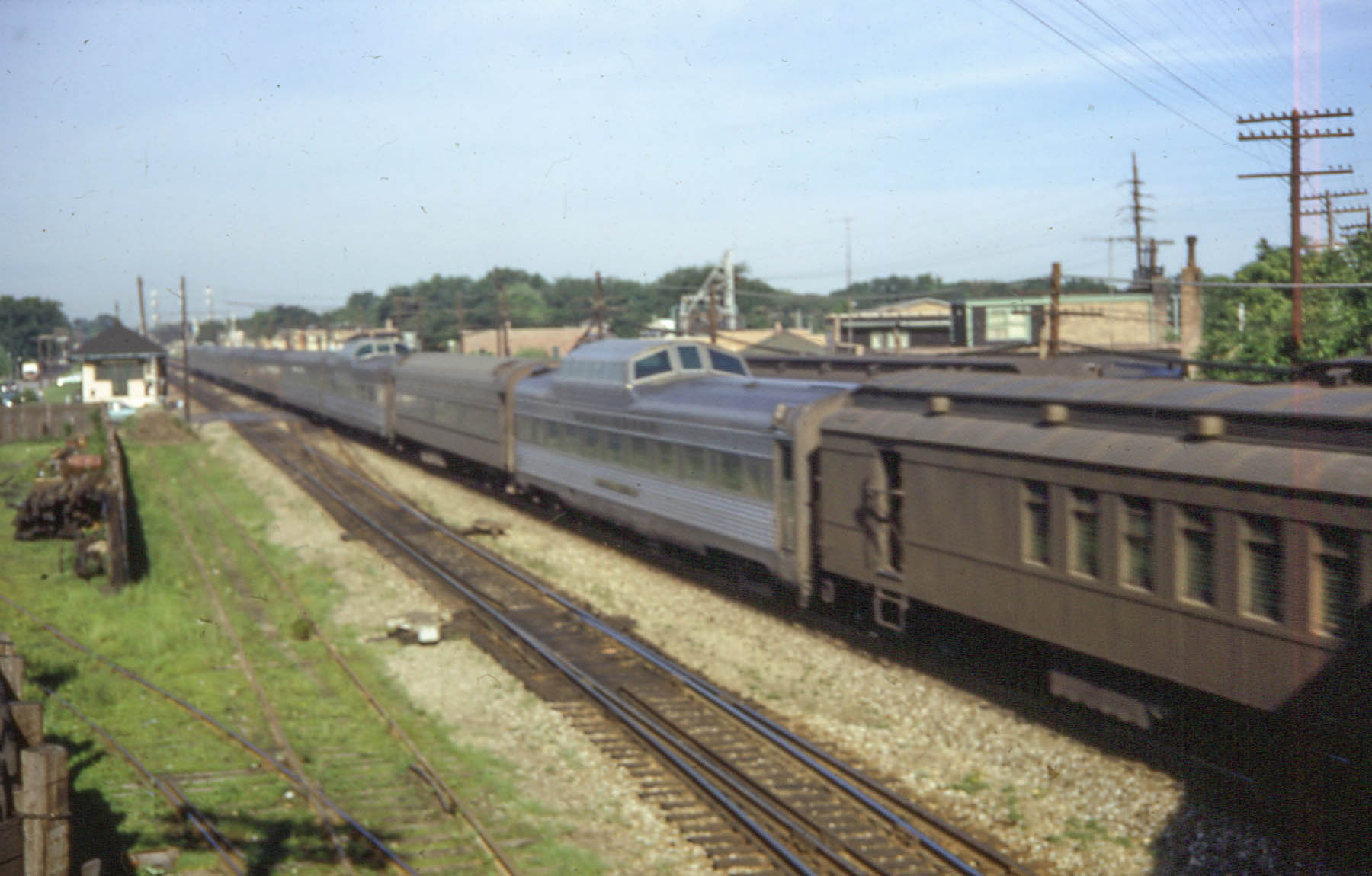 The Black Hawk in Lavergne, Illinois in June 1967